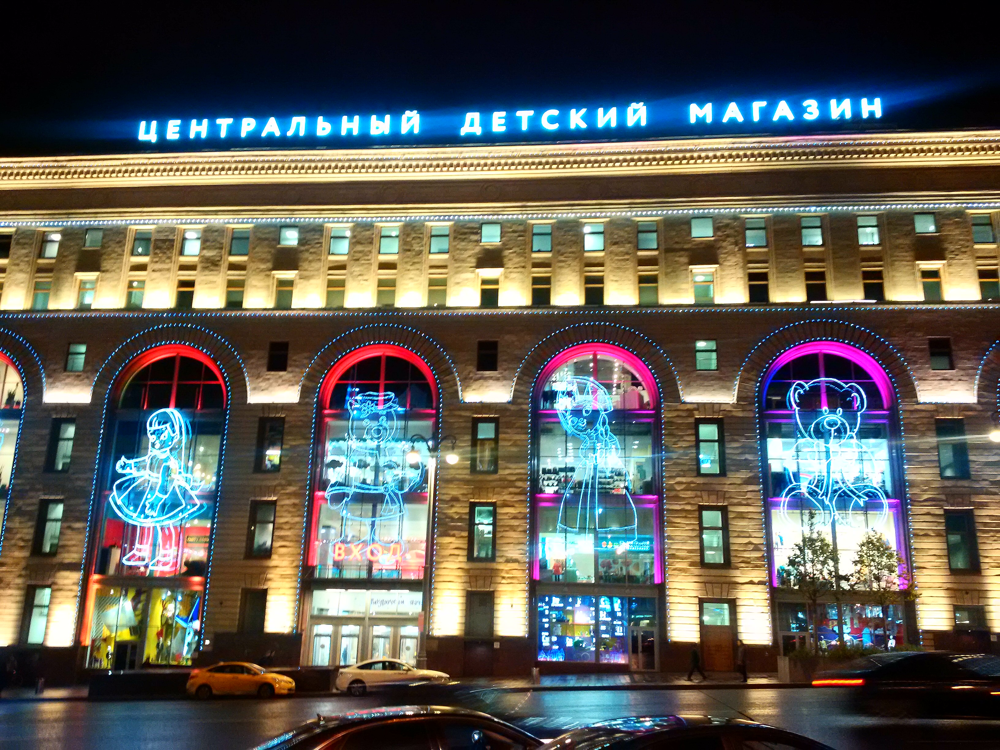 Детский мир